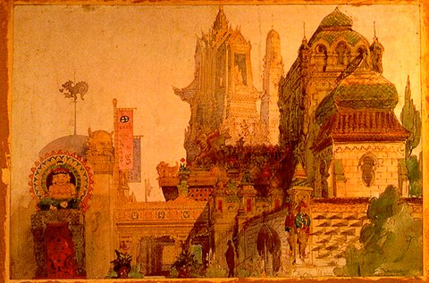 Viktor Hartmann - The castle at Chermomor (Chermomor?)